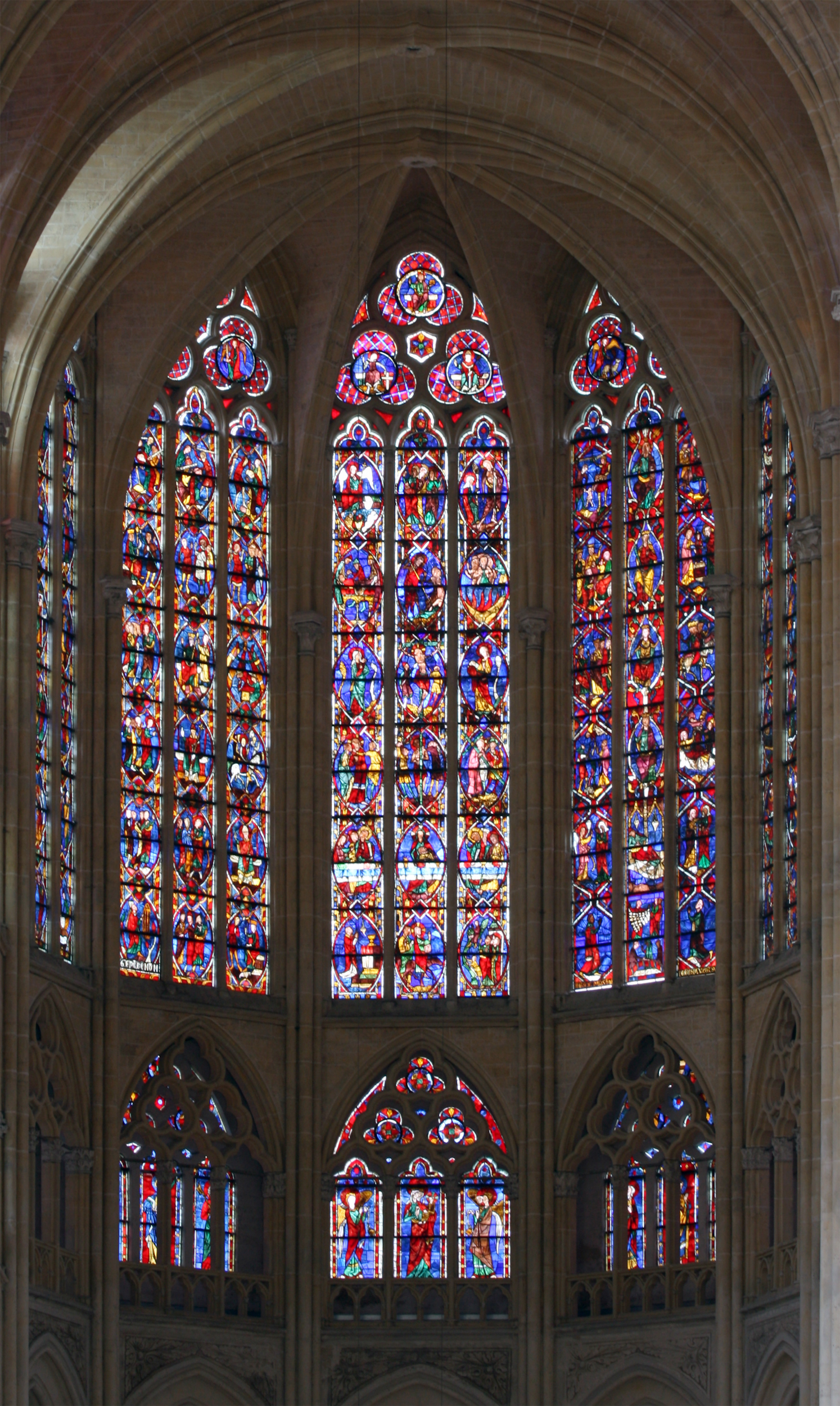 The stained glass windows of the choir apse of the cathedral of Tours.